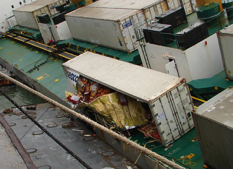 The reefer ship Ivory Tirupati docked in Brest with heavy list : a broken container shows its content